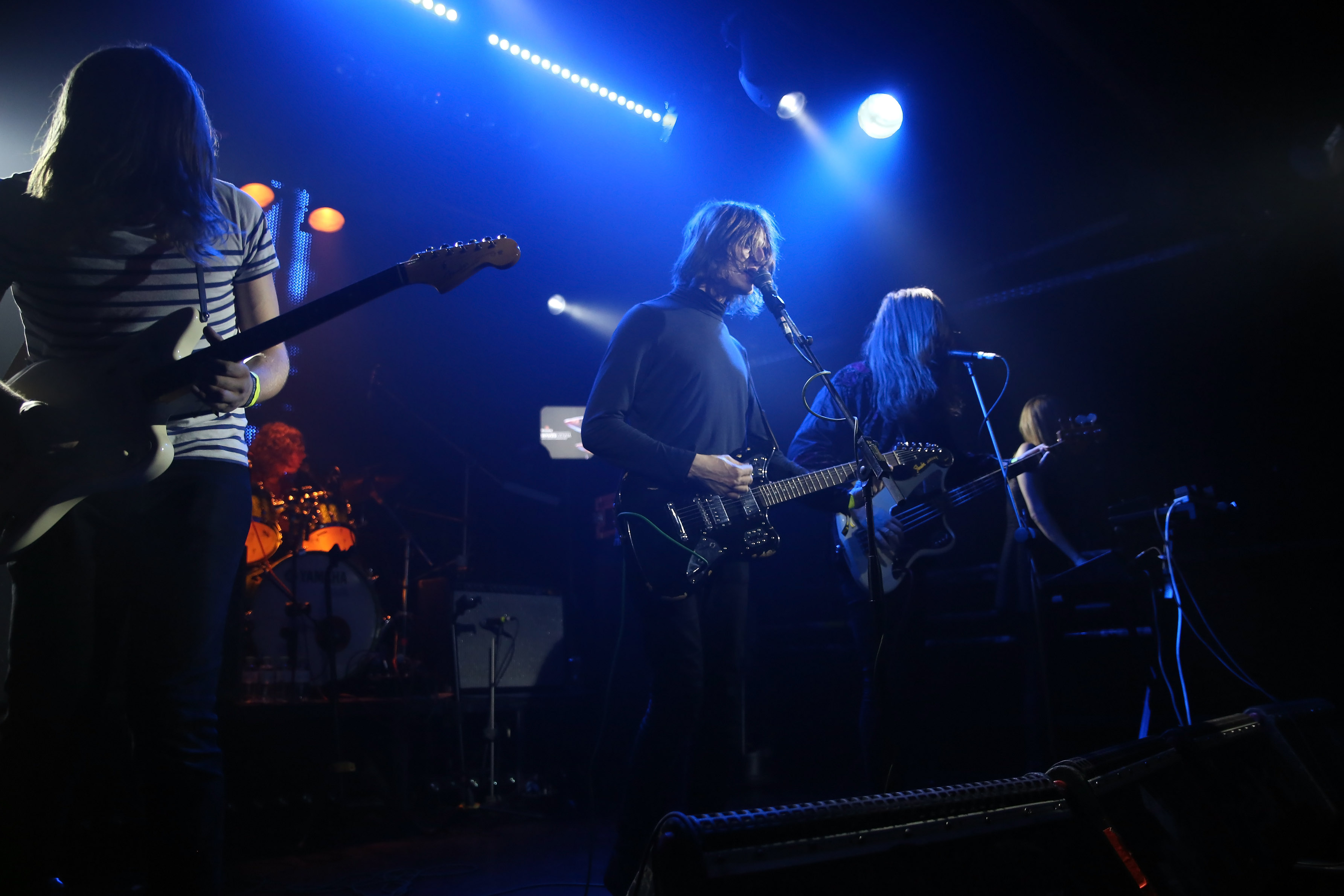 Toy - concert at Flex during Waves Vienna Music Festival & Conference 2012 in Vienna, Austria.